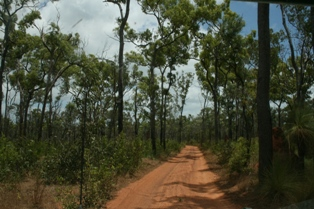 Jardine River National Park, Cape York, Queensland, Australia